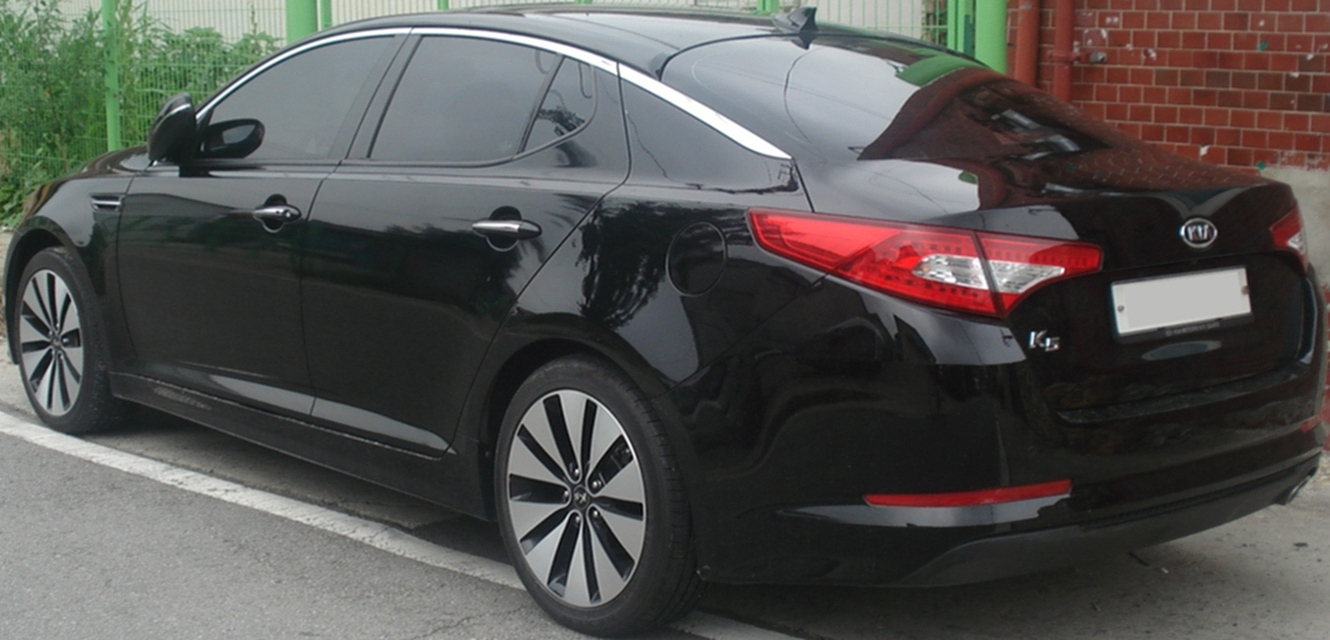 Kia K5